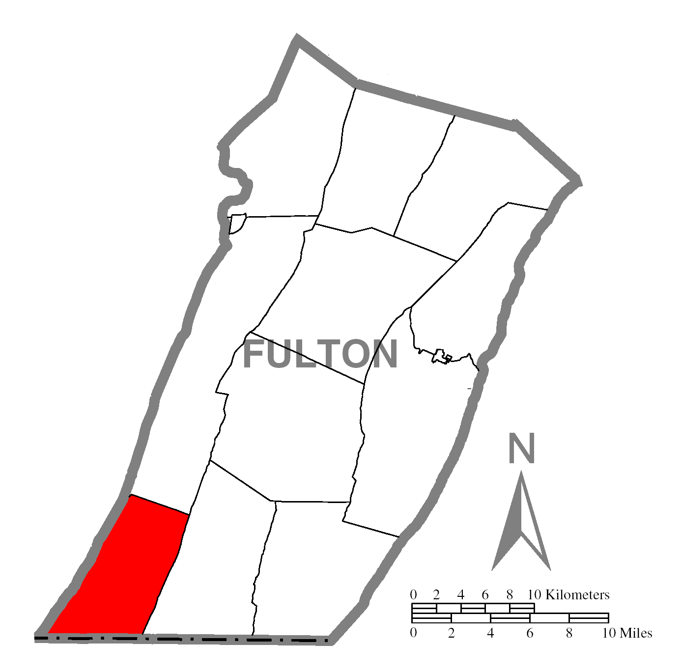 A map of Fulton County showing Union Township, Pennsylvania (alternate) highlighted on the map.